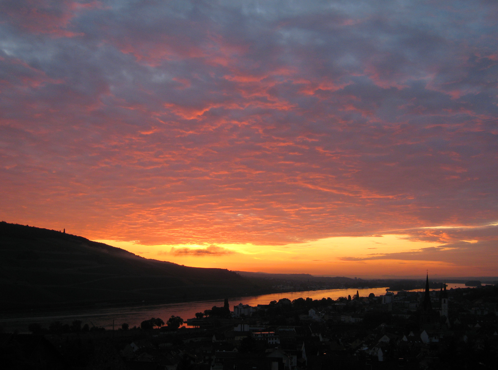 Sunrise above the town of Bingen on the Rhine in June 2007